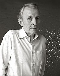 Picture of Maurice Girodias, taken by Gilles Larrain